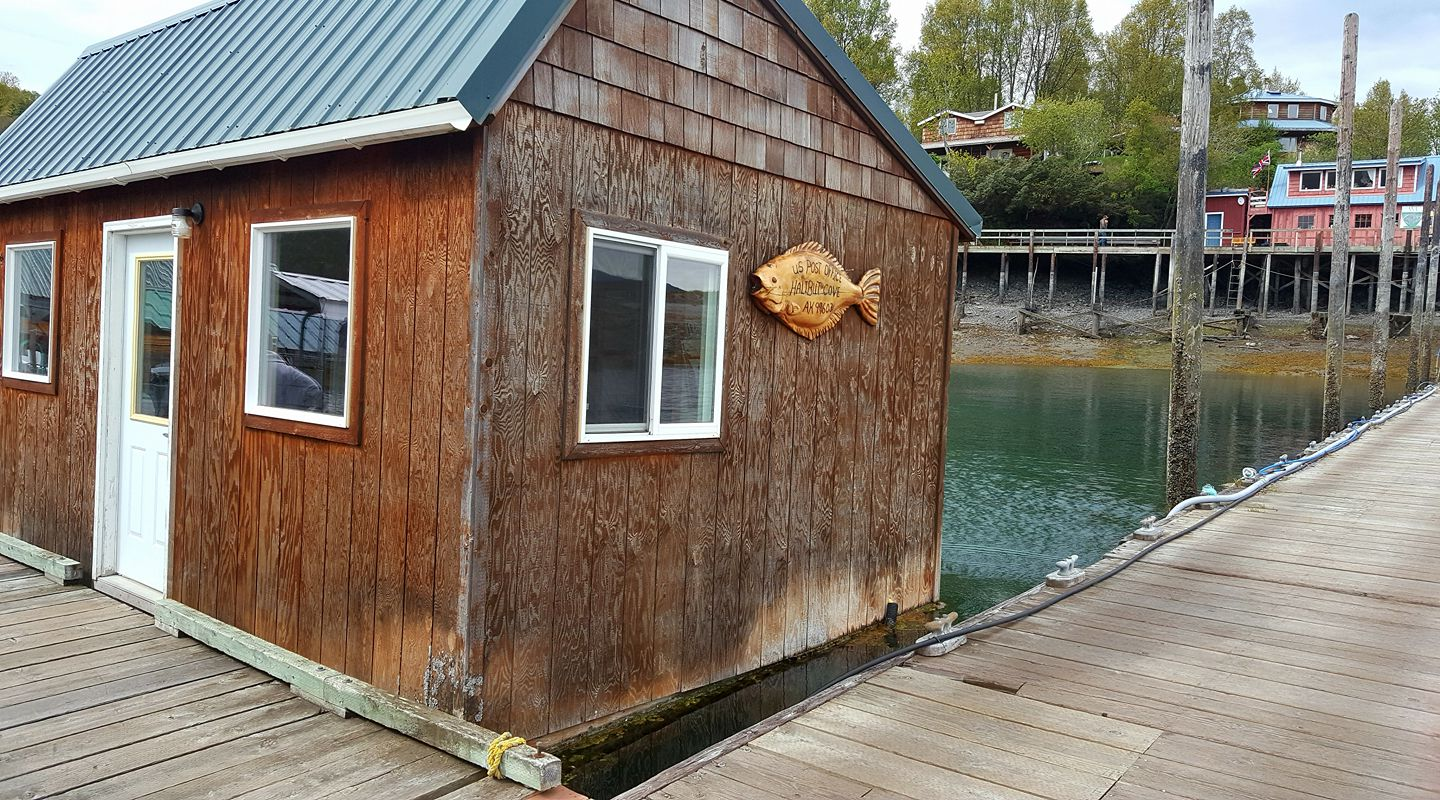 A rare example of a floating post office, Halibut Cove, Alaska